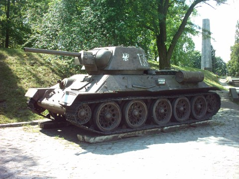 T-34 Model 1942 tank at the Museum of Armament in Poznań